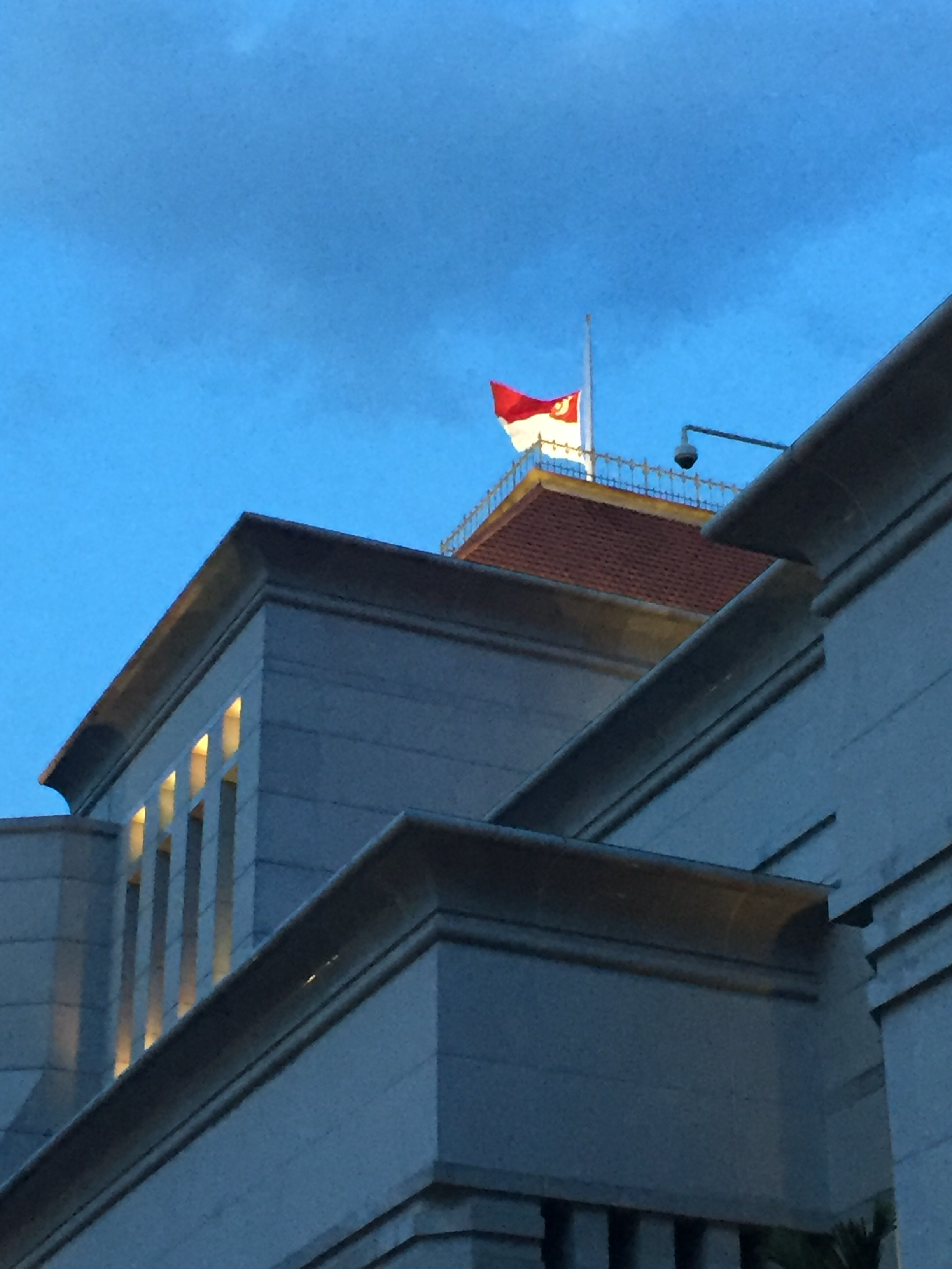 The National Flag of Singapore at half-staff on the roof of Parliament House, Singapore, during the lying in state of the late former President of Singapore, S. R. Nathan, there.